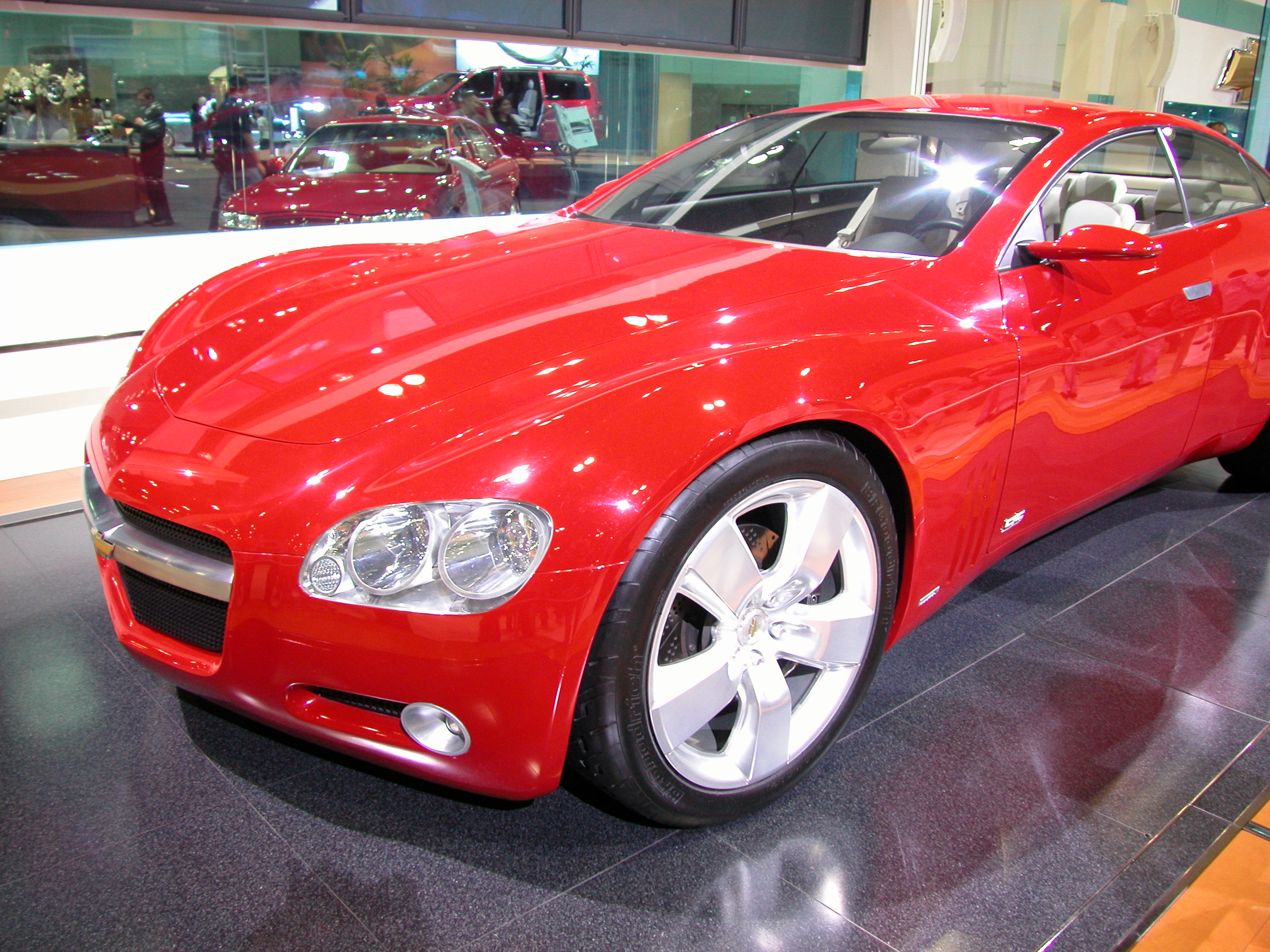 Chevrolet SS concept vehicle at the 2004 Los Angeles Auto Show. Camera used is a Nikon Coolpix 5000.